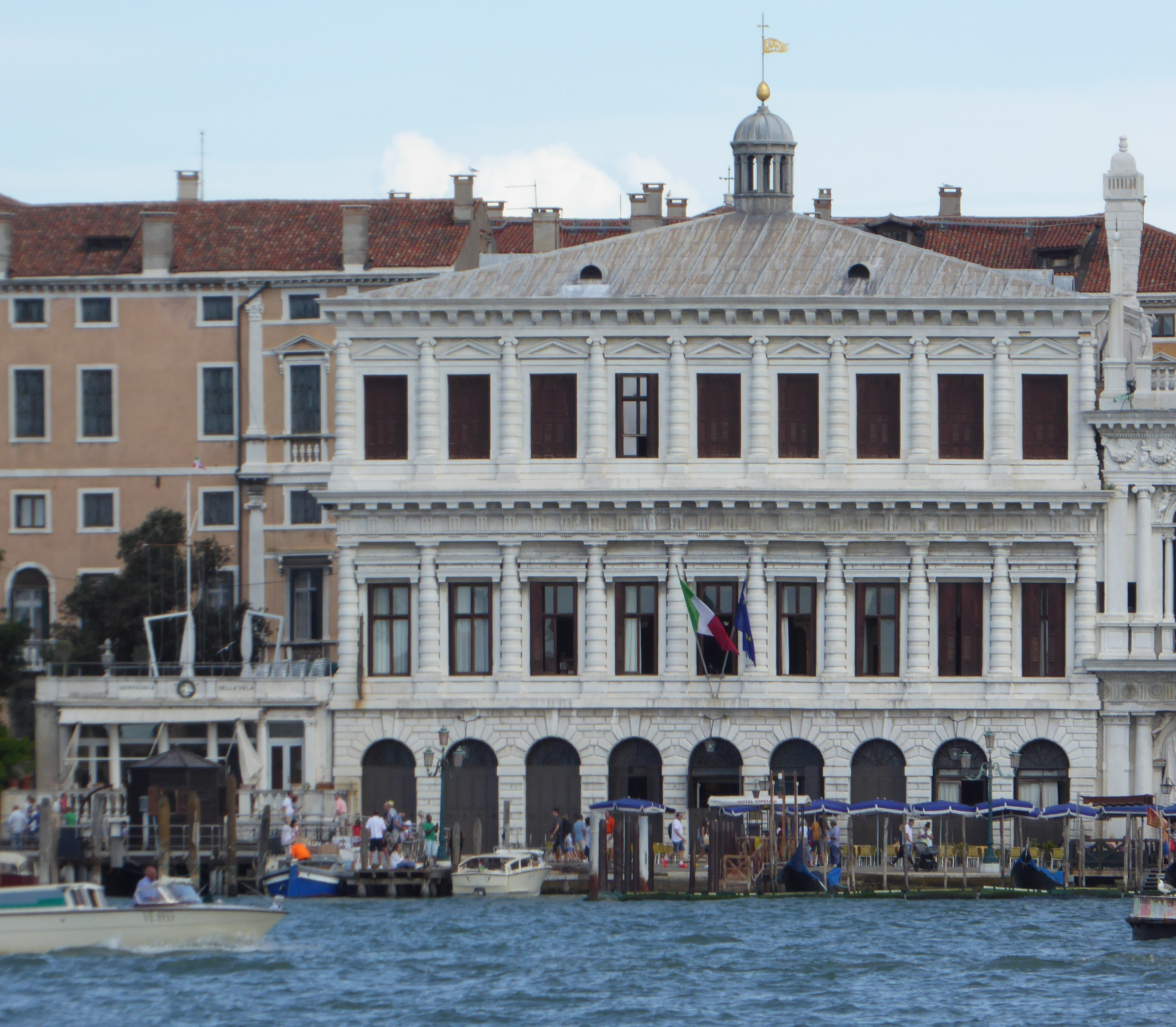 venice pictures